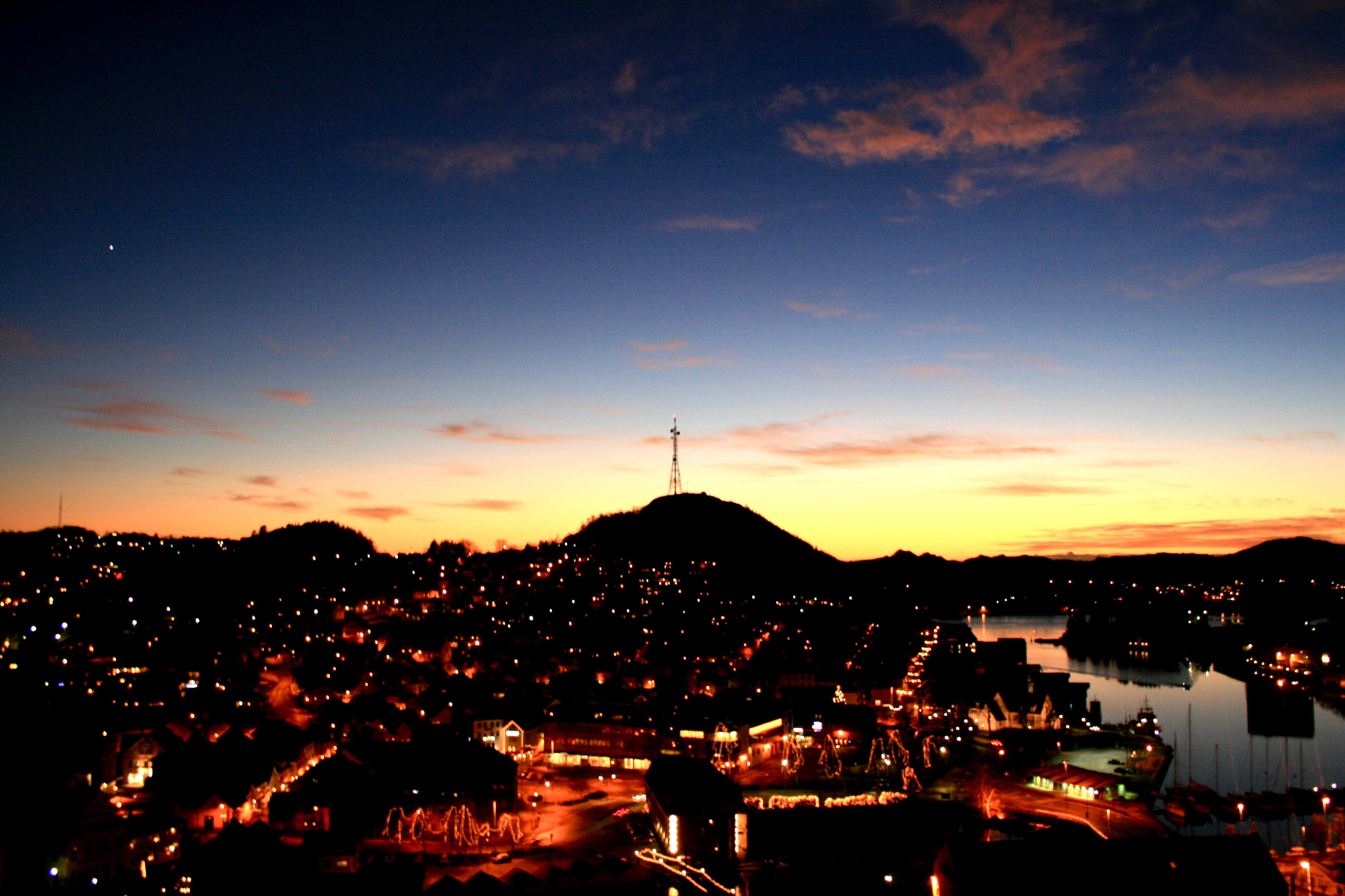 Towncenter of Egersund by night, captured on Kråkefjellet.